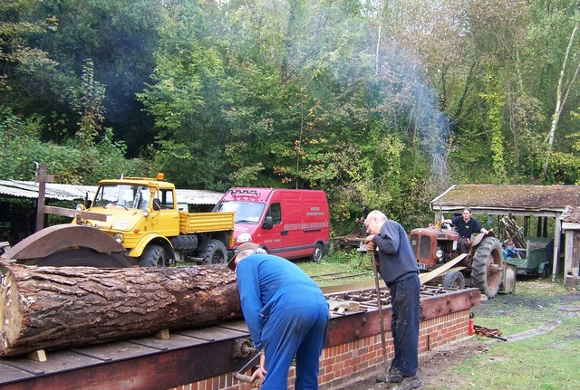 Sawing Logs- Amberley Working Museum Demonstration of tractor driven log saw at Amberley. Notice the size of the blade, it was about six feet diameter.